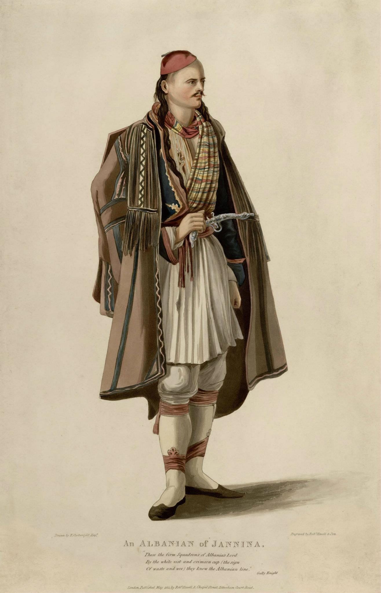 Albanian warrior of Jannina, painted by Joseph Cartwright